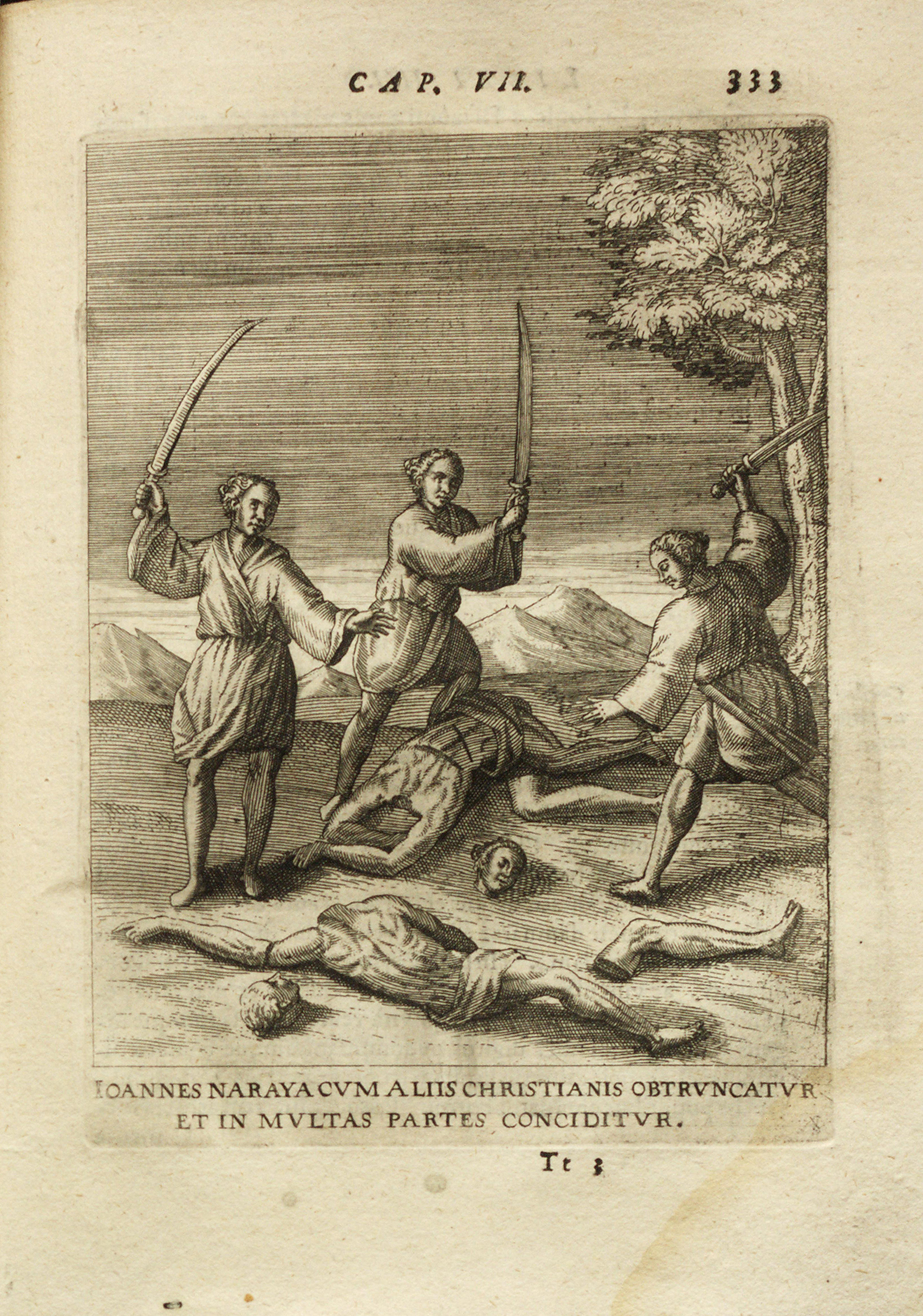 Illustration from Nicolas Trigault (1623): De Christianis apud Japonios triumphis. Ioannes Naraya cum aliis christianis obtruncatur et in multas partes conciditur.